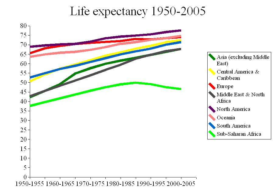 Data source: World Resources Institute. 2006. Available at Washington DC: World Resources Institute. Menu "Population, Health and Human Well-being", submenu "Searchable Database". "Population Division of the Department of Economic and Social Affairs of the United Nations Secretariat, 2005. World Population Prospects: The 2004 Revision. Dataset on CD-ROM. New York: United Nations. Available on-line at